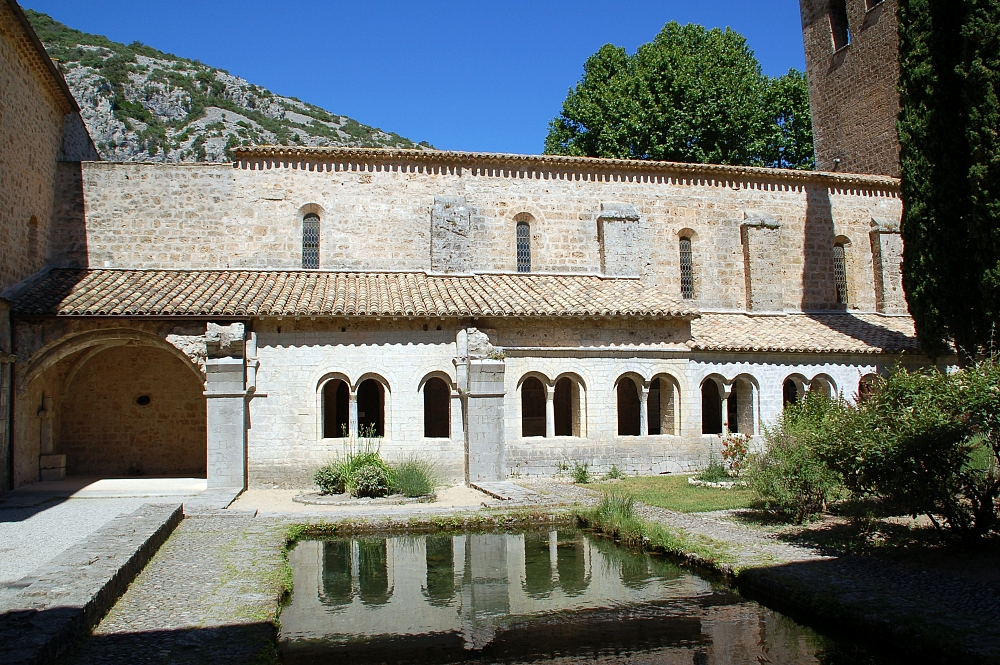 Saint-Guilhem-le-Désert, Languedoc-Roussillon, France